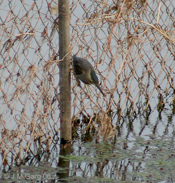 Little Heron Butorides striata in Bhopal, Madhya Pradesh, India.